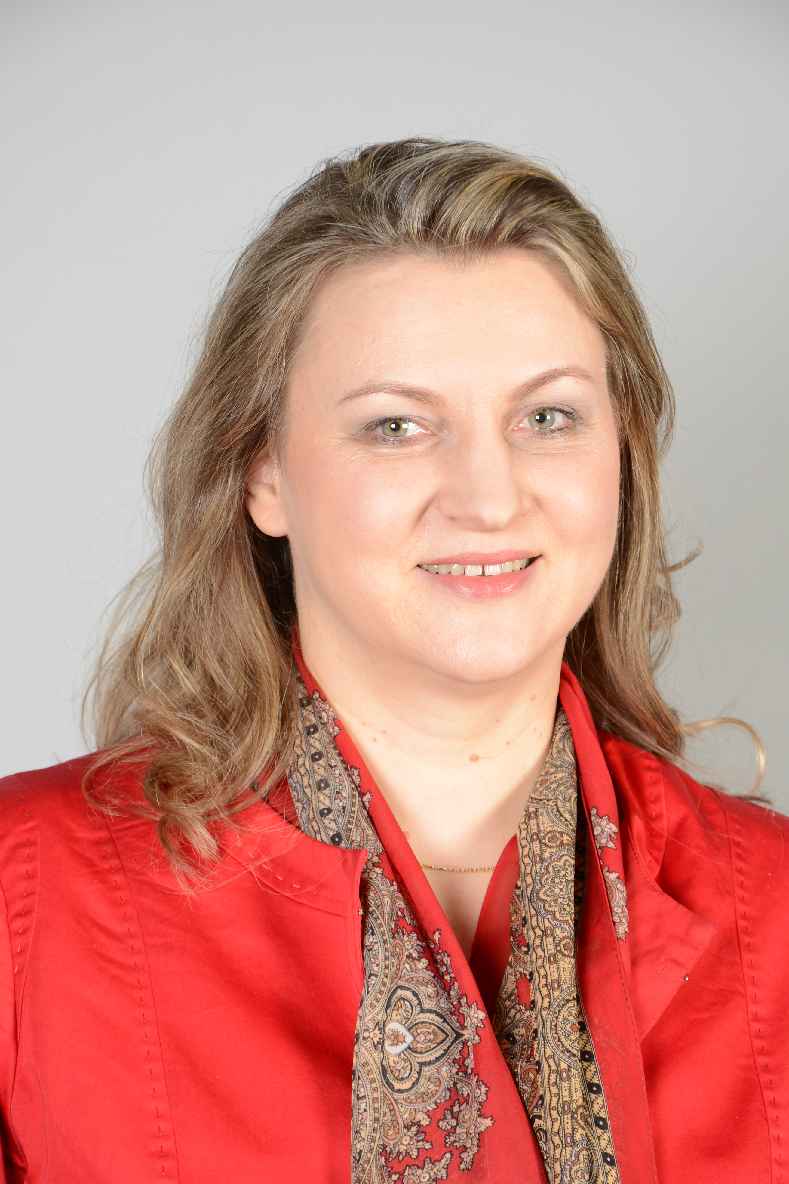 Silvia Adriana Ticãu